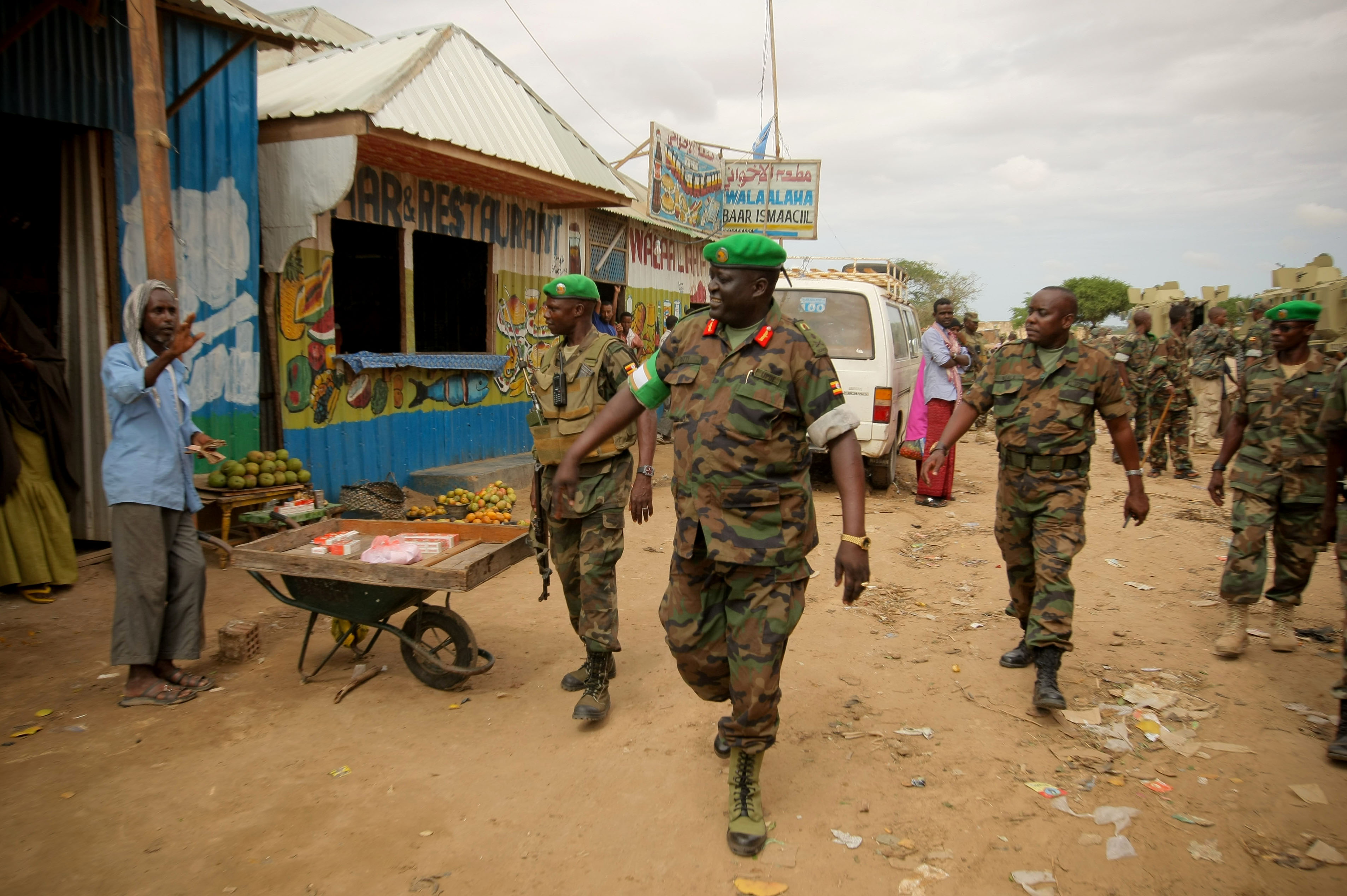 African Union Mission in Somalia (AMISOM) Force Commander Lt. Gen. Andrew Gutti (centre) gestures towards a Somali man during a visit to Afgoye Town located 30km to the west of the Somali capital Mogadishu. AMISOM supporting Somali National Army (SNA) forces recently liberated the Afgoye Corridor from the Al Qaeda-affiliated extremist group Al Shabaab, pushing them further away from Mogadishu and opening up the free flow of goods and produce between the fertile agricultural area surrounding Afgoye and the Somali capital. AU-UN IST PHOTO / STUART PRICE.